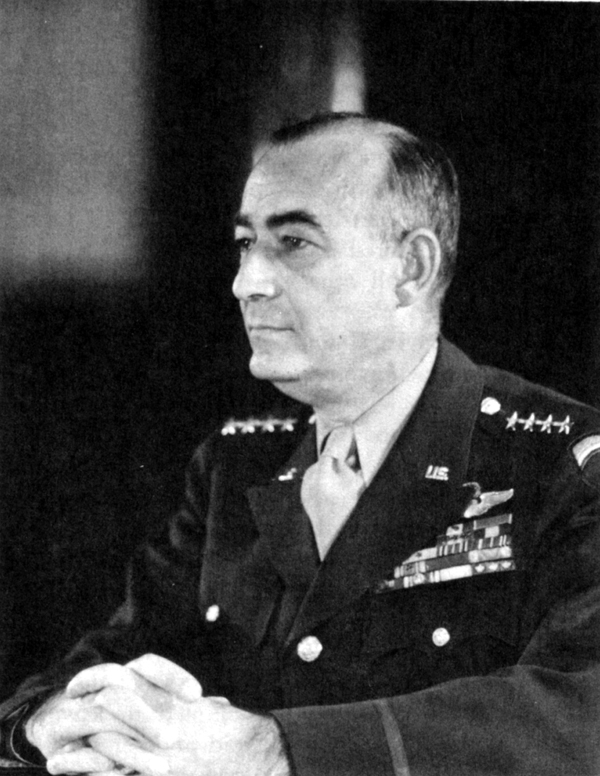 GENERAL MCNARNEY